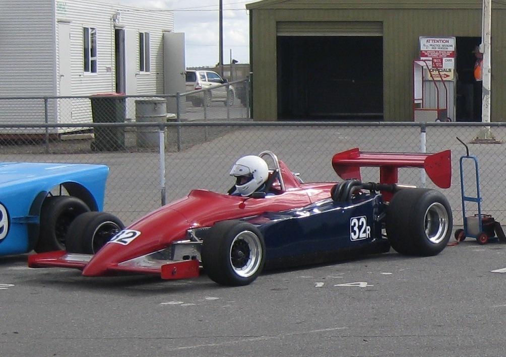 Ralt RT4 of Sean Whelan at Mallala Motor Sport Park